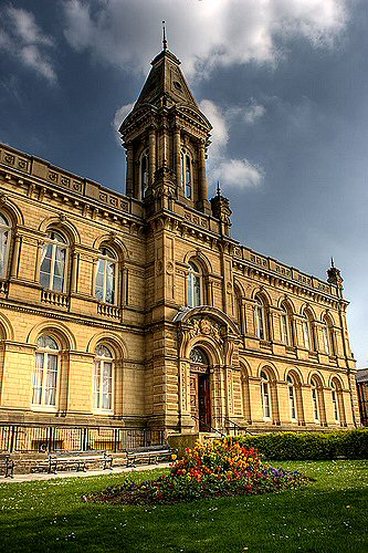 Victoria Hall, Saltaire, West Yorkshire. Process: 5 x RAW to 1 x HDR then tone mapped to 1 x TIF